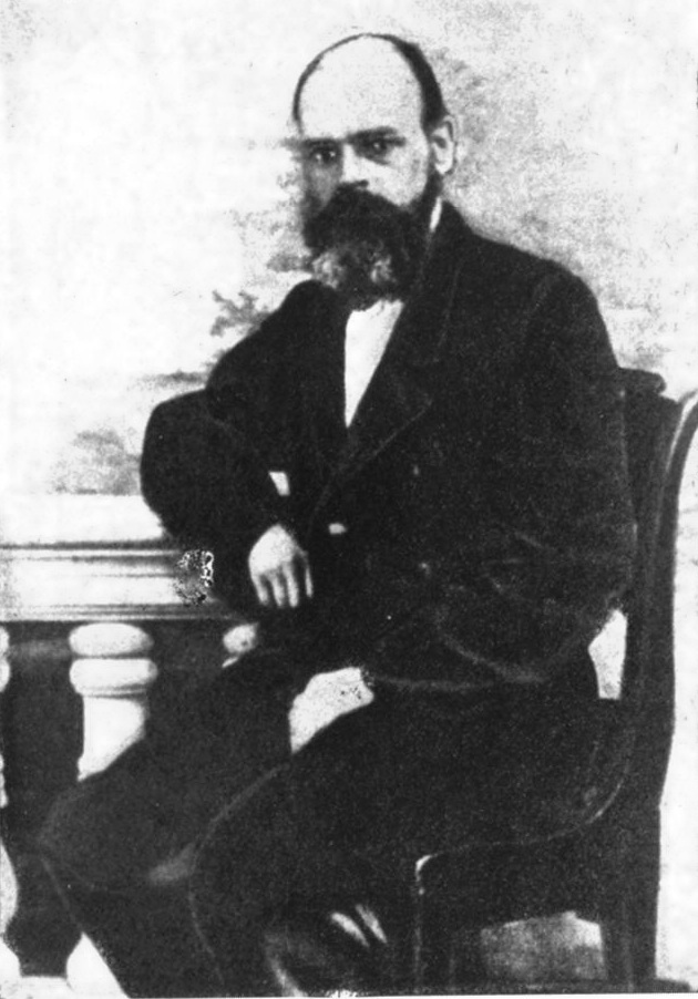 Józef Chwiećkowski (1821-1880)